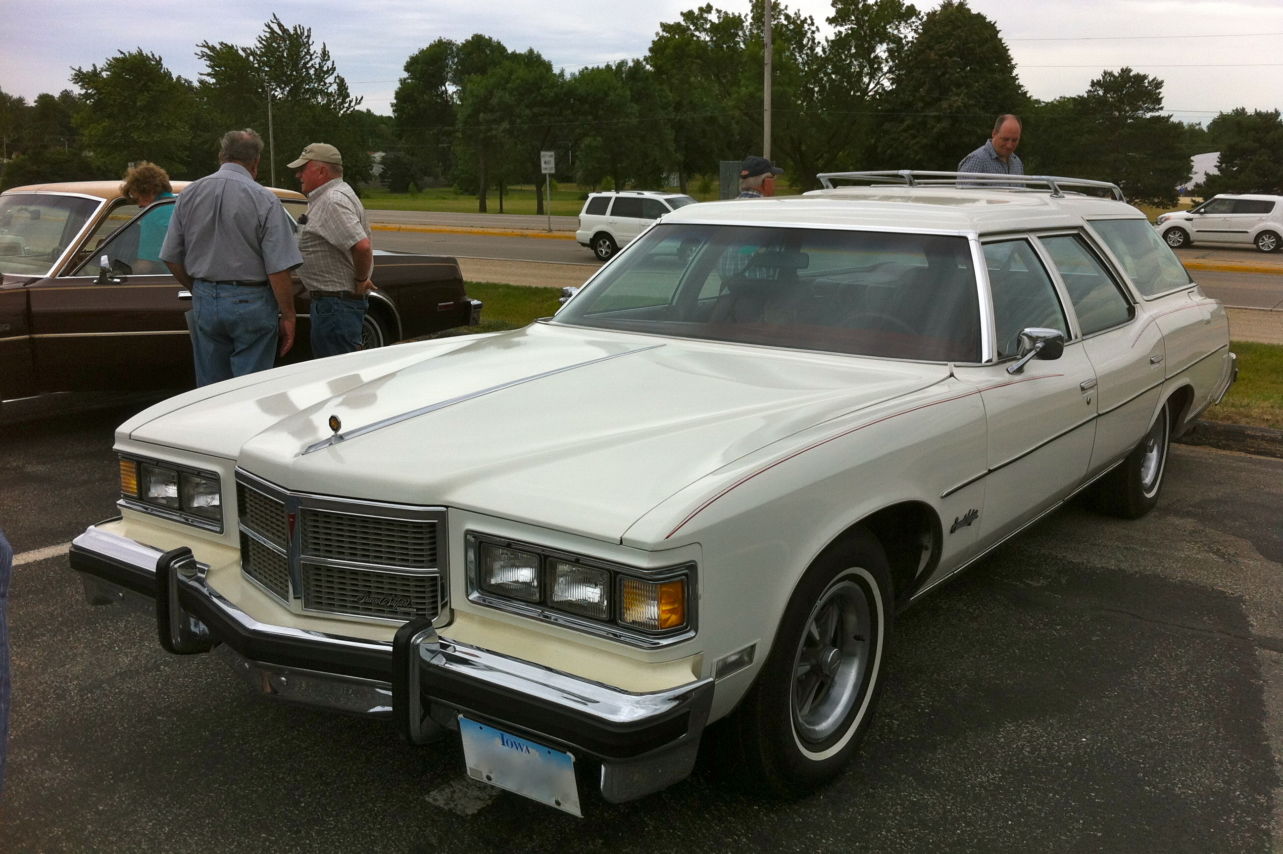 1975 Pontiac Grand Safari station wagon - front view. Picture taken at the Central meet of the AACA held in Cedar Rapids, Iowa, USA.